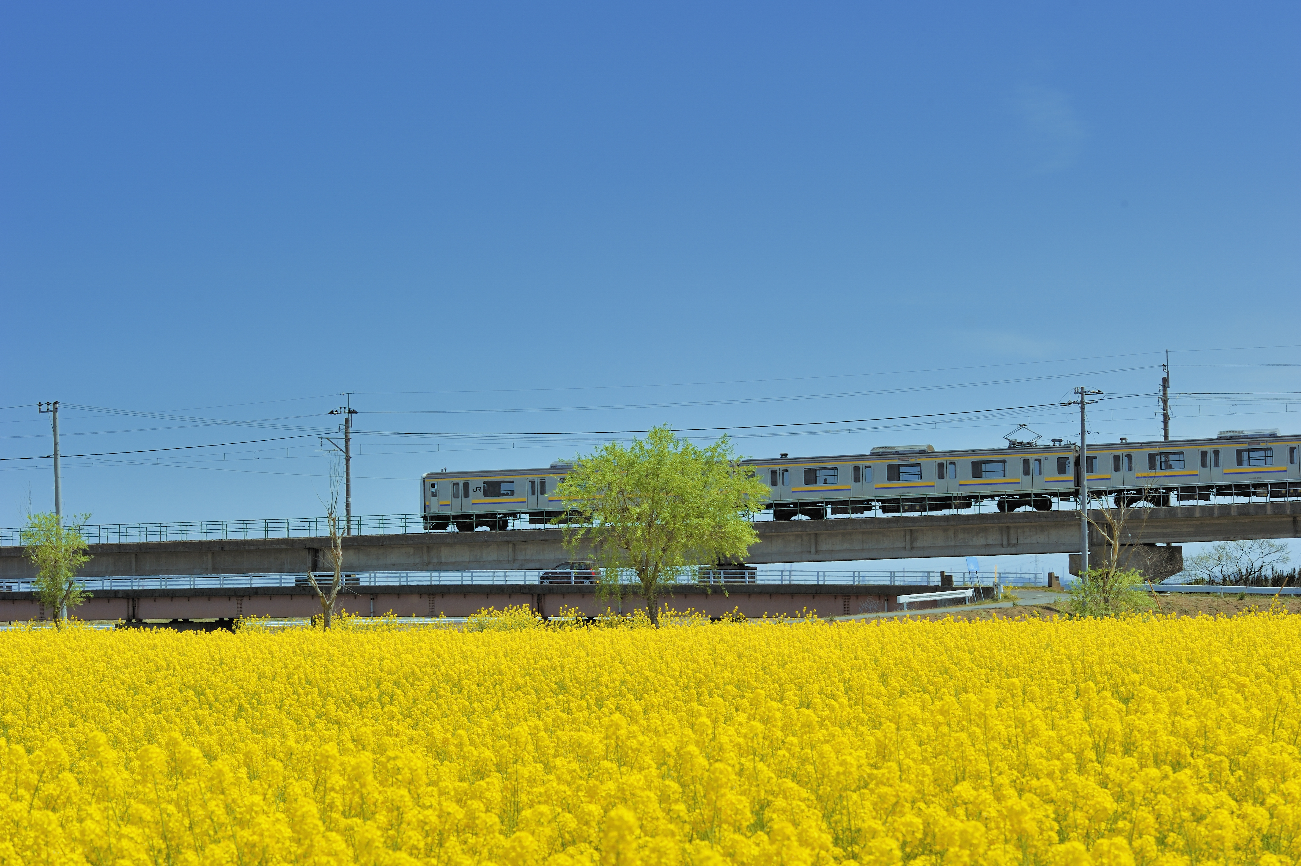 Yellow Train